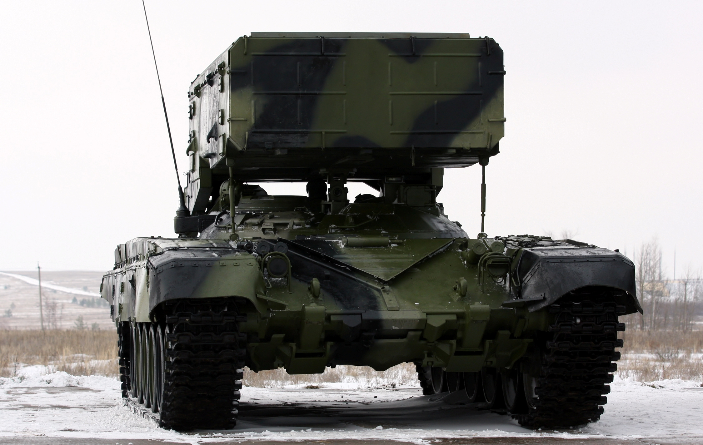 TOS-1A launcher.